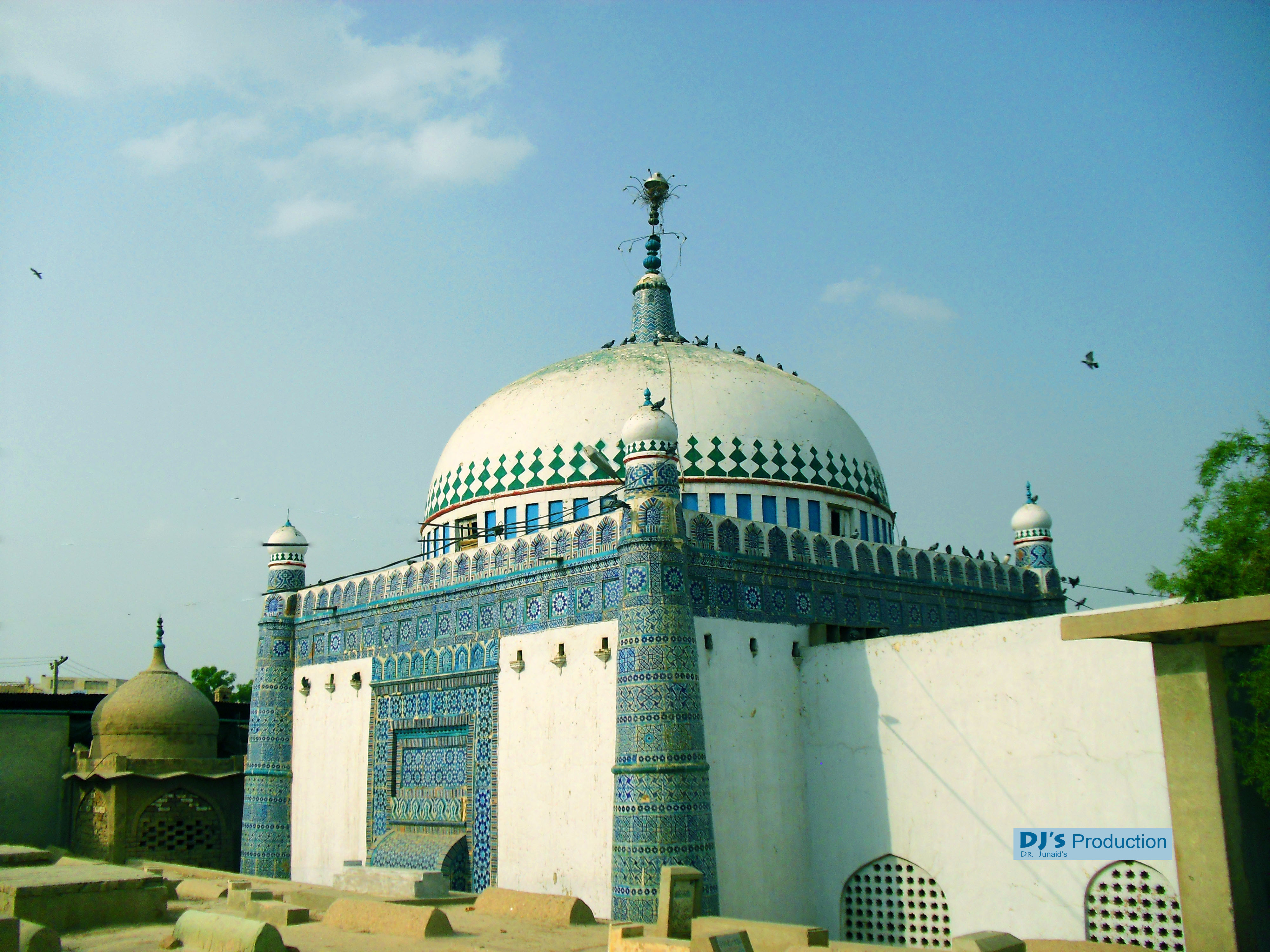 Shrine of Khawaja Awais Kagha This is a photo of a monument in Pakistan identified as the PB-P-162